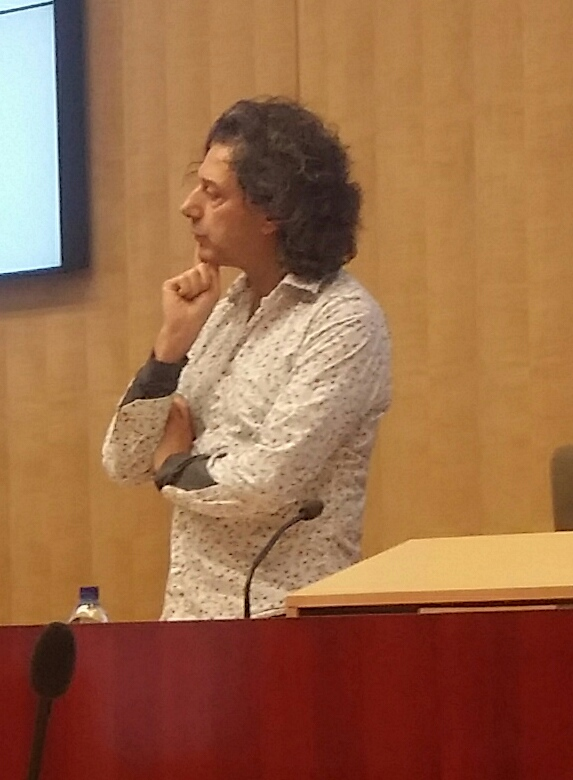 Éric Sadin photographed in Montréal , Québec, Canada at Université De Montréal .